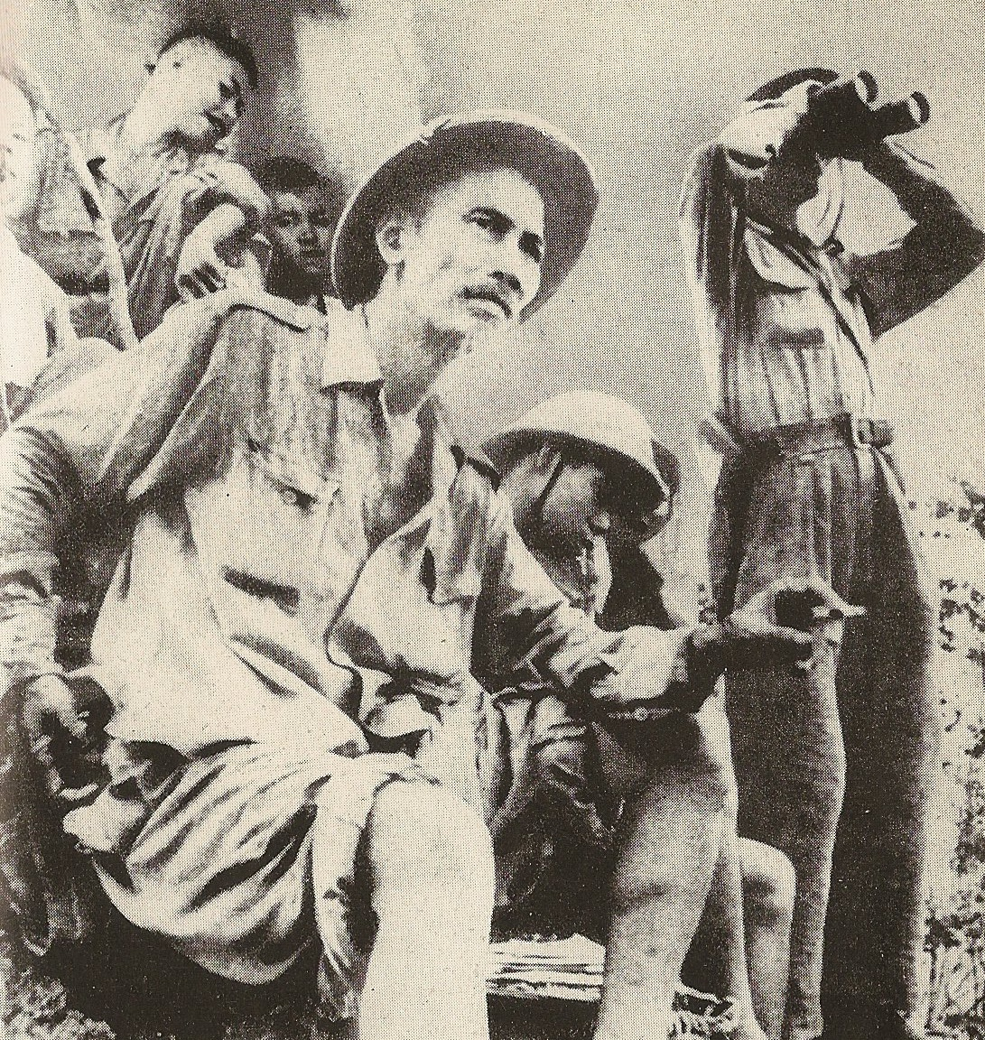 Ho Chi Minh during the Battle of Dong Khe, 1950